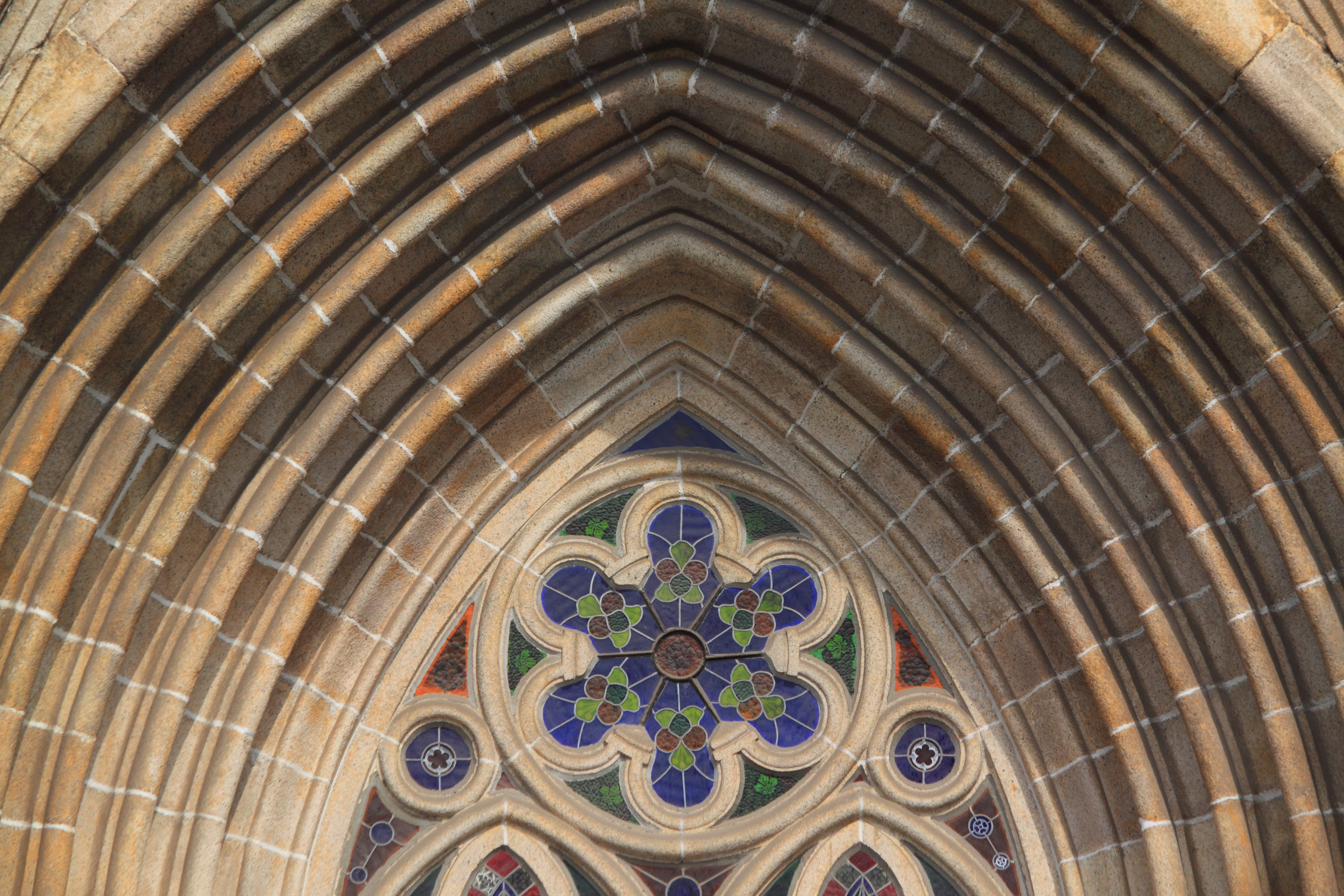 Sacred Heart Cathedral of Guangzhou，in Guangzhou, Guangdong, China.